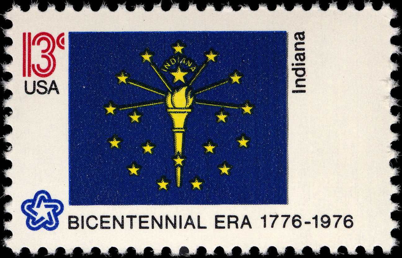 Indiana 13-cent U.S. stamp - 1976 - American Bicentennial Issue: Flag Series